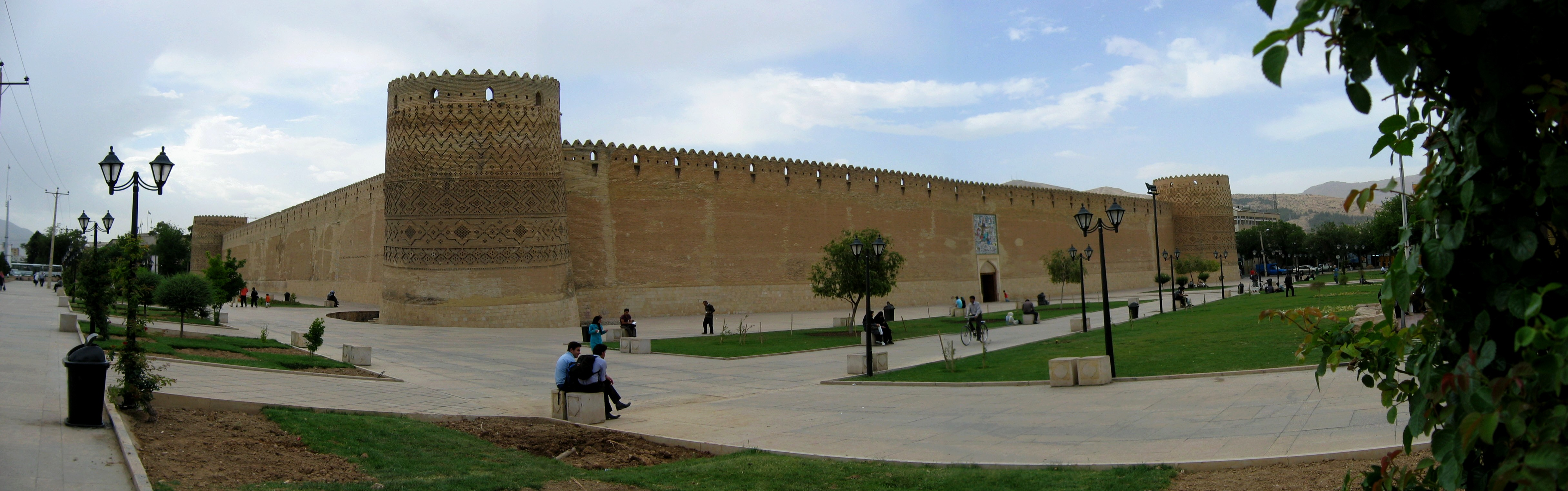 The Panorama of Arg of Karim Khan in Shiraz